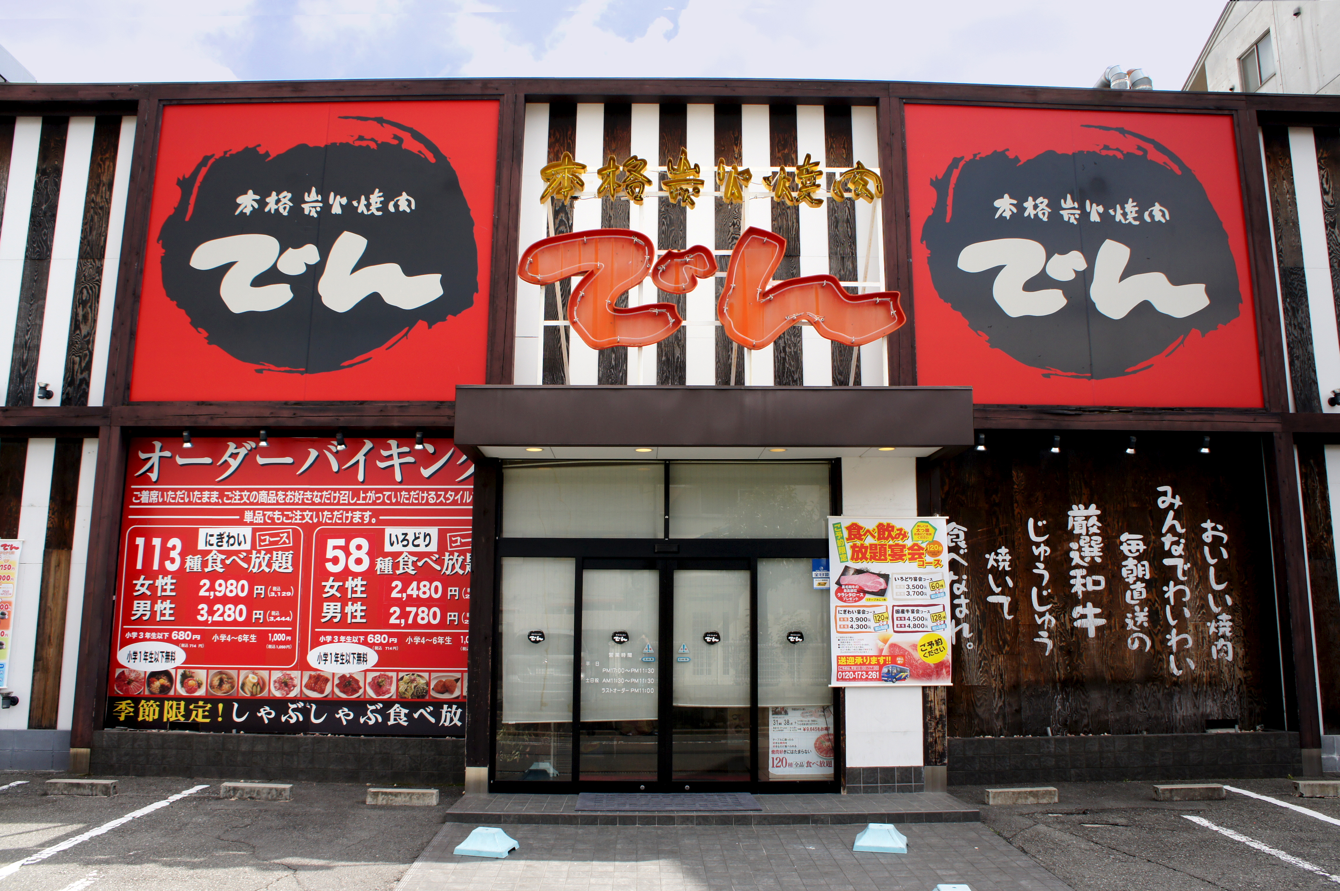 DEN Esaka, 12-28 Toyotsucho Suita-City Osaka Japan.